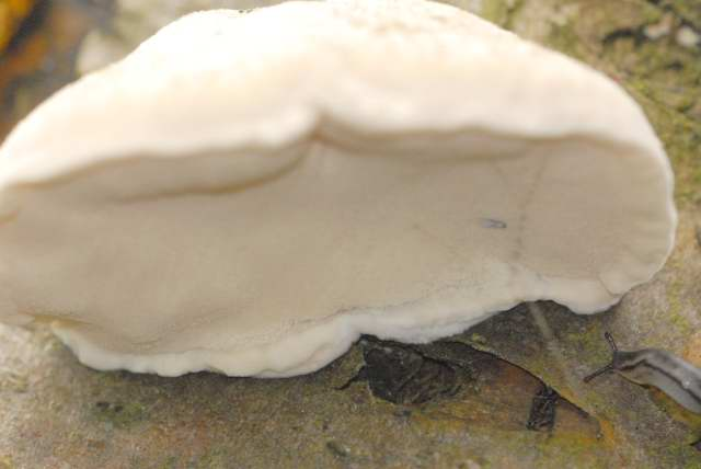 Tyromyces chioneus from Commanster, Belgian High Ardennes .